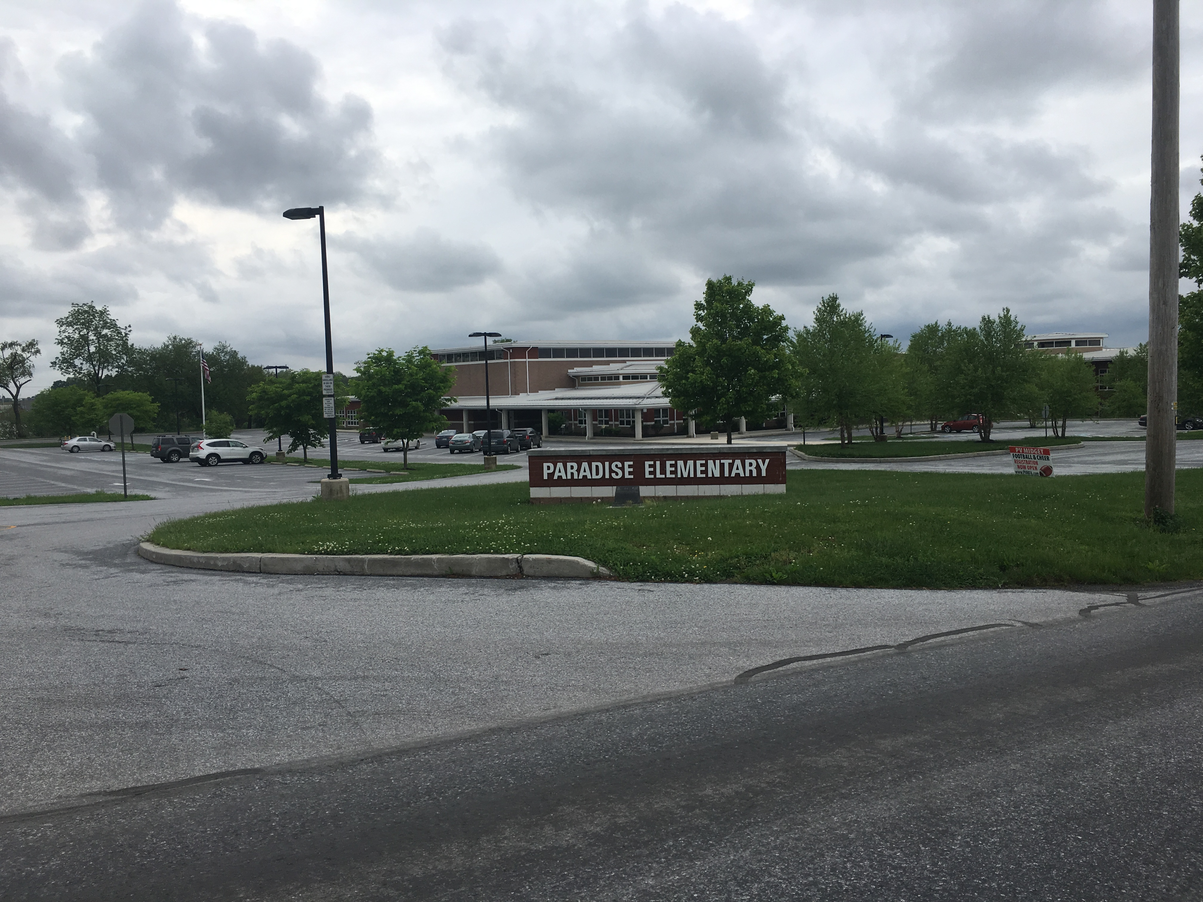 The freshly renovated Paradise Elementary School